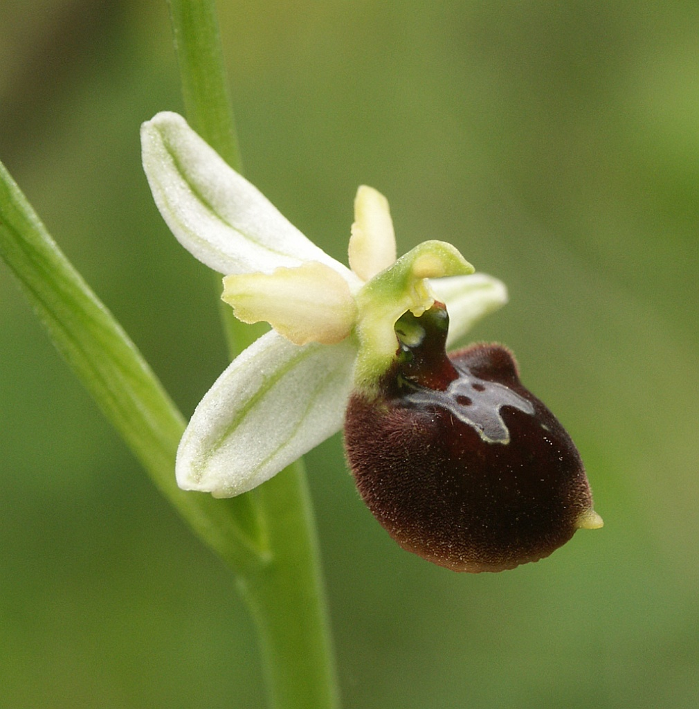 Ophrys × aschersonii